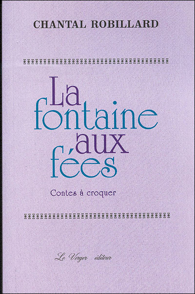 cover of the book "La fontaine aux fées" by C. Robillard